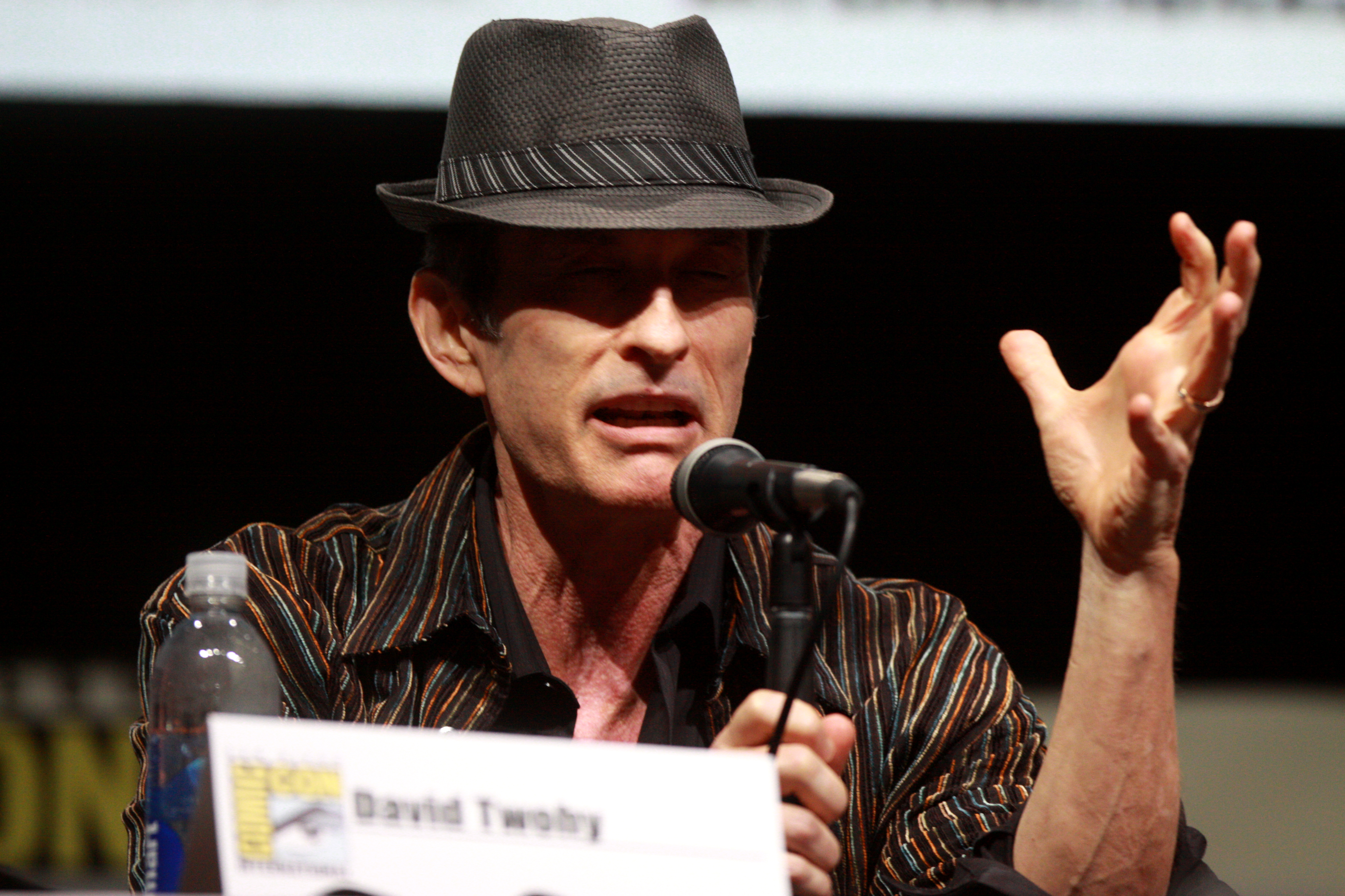 David Twohy speaking at the 2013 San Diego Comic Con International, for "Riddick", at the San Diego Convention Center in San Diego, California.